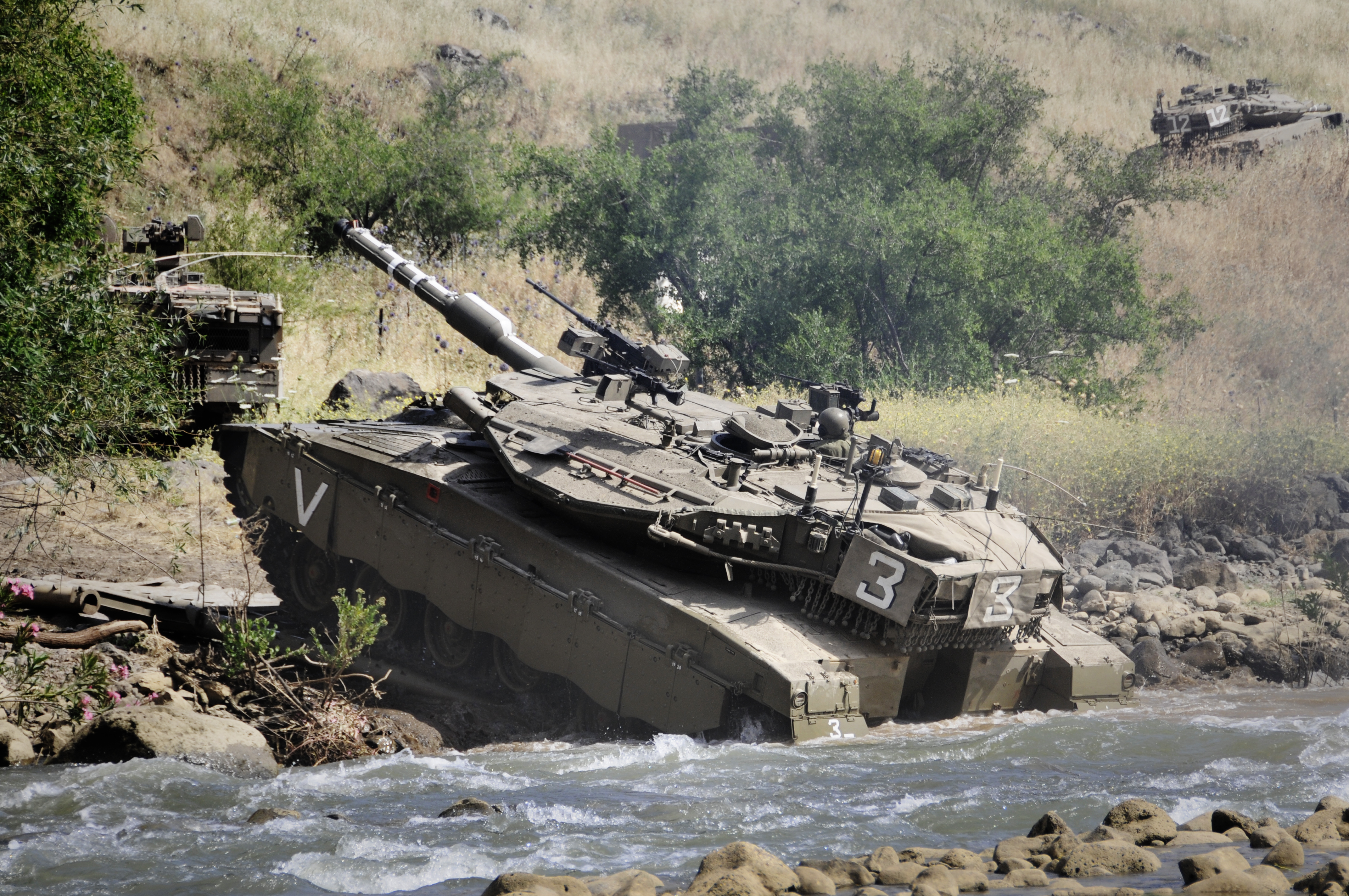 An IDF tank emerges from the Jordan River during a river-crossing drill in the Golan Heights.